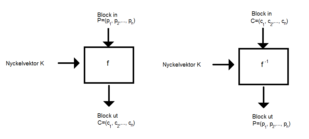 Image of a simple block cipher.